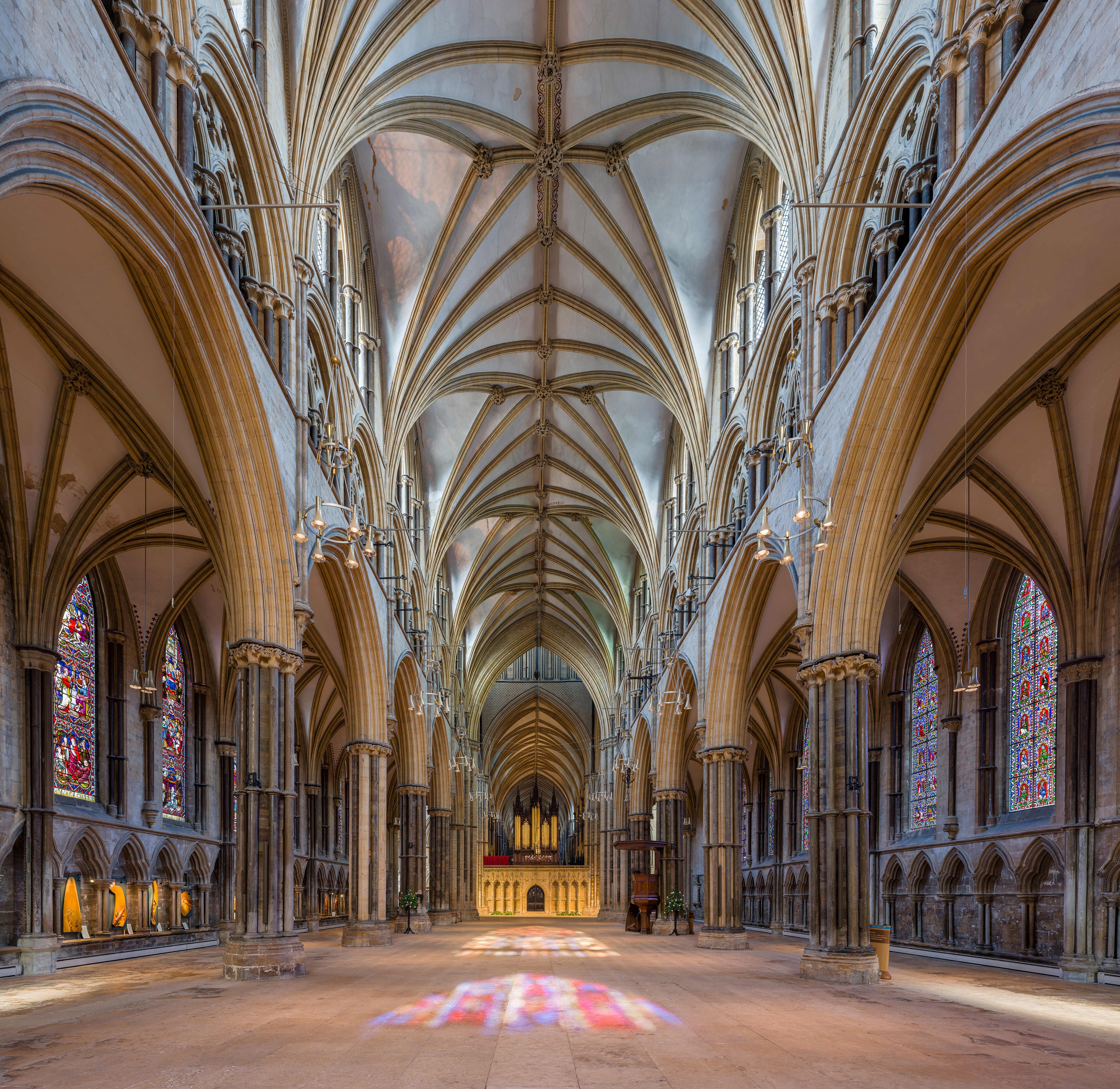 The nave of Lincoln Cathedral looking east in the late evening, in Lincolnshire, England. The sunlight is streaming in through the west window casting a projection on the nave floor.